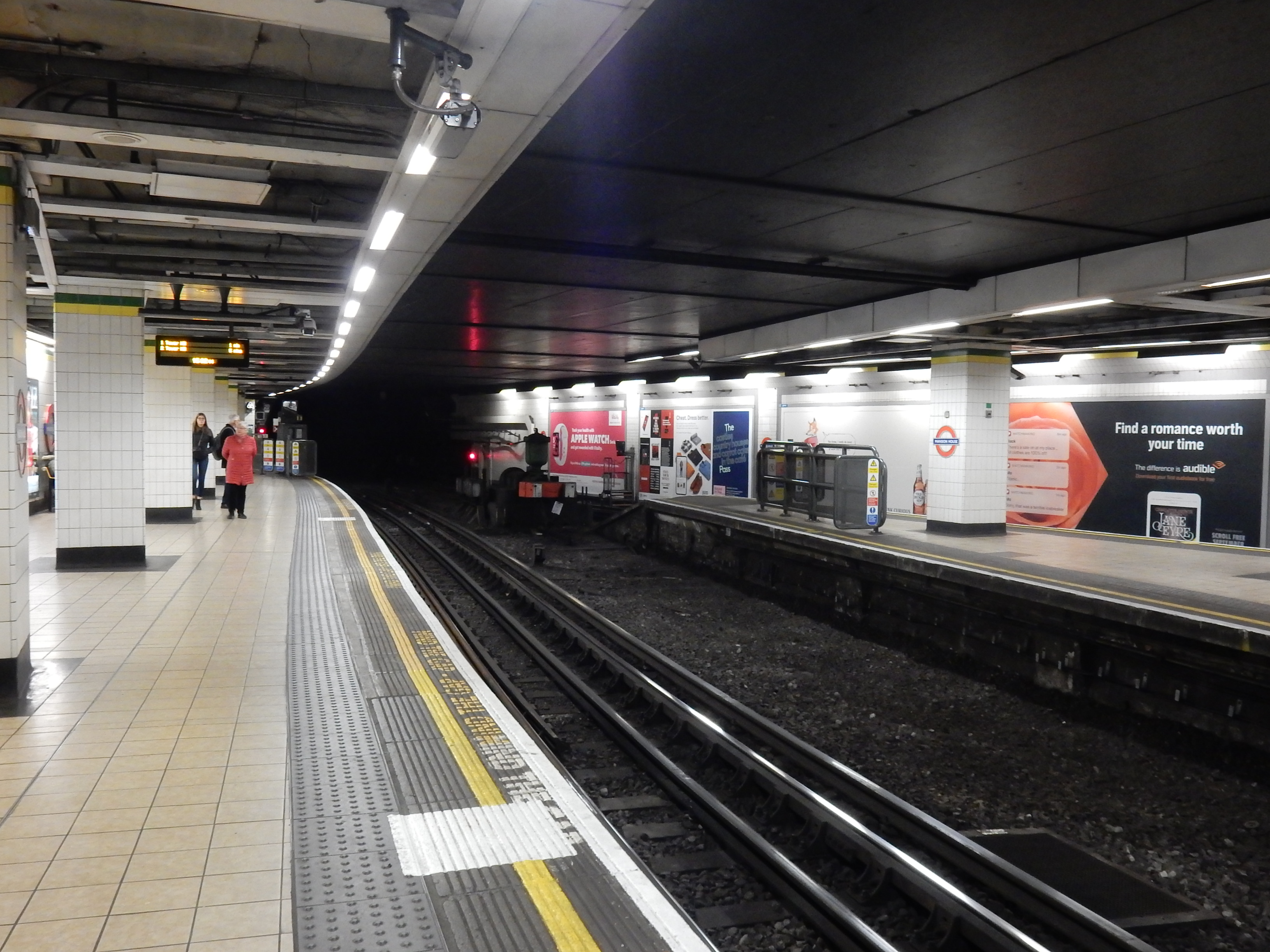 Mansion House station looking east in 2019, a few years after the removal of the track in platform 2, used for reversing trains until 2016.